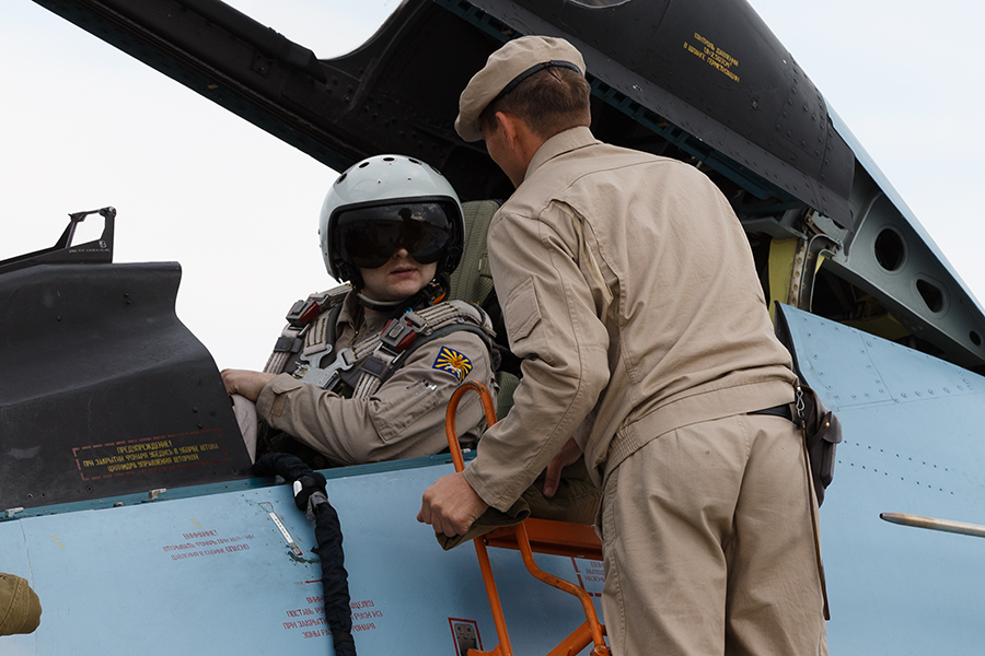 Будни авиагруппы ВКС РФ на аэродроме Хмеймим в Сирии